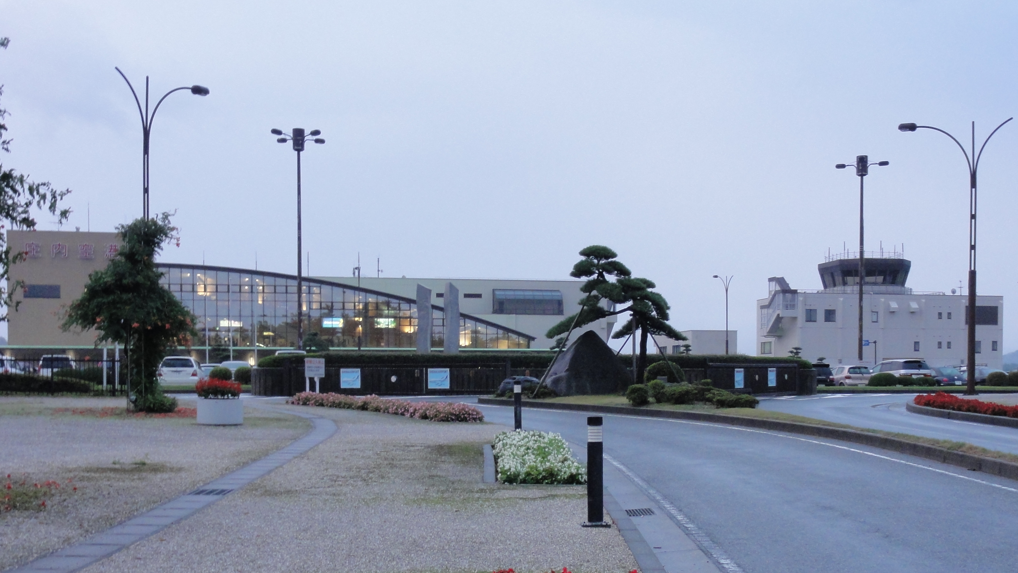 Shonai Airport Terminal and Tower,Yamagata Pref., Japan